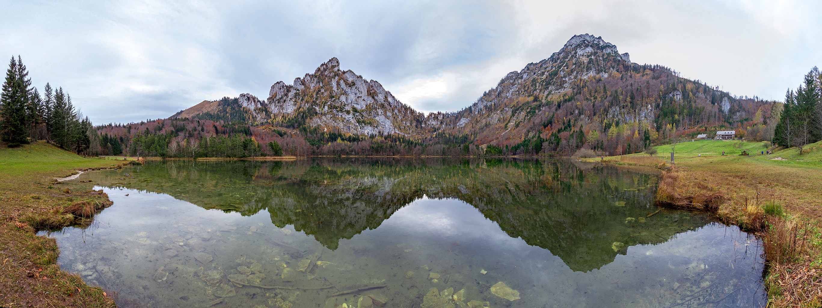 Autumnal panoramic view of the Laudachsee lake, with the Katzenstein (1349 m) and the Traunstein (1691 m) in the background.